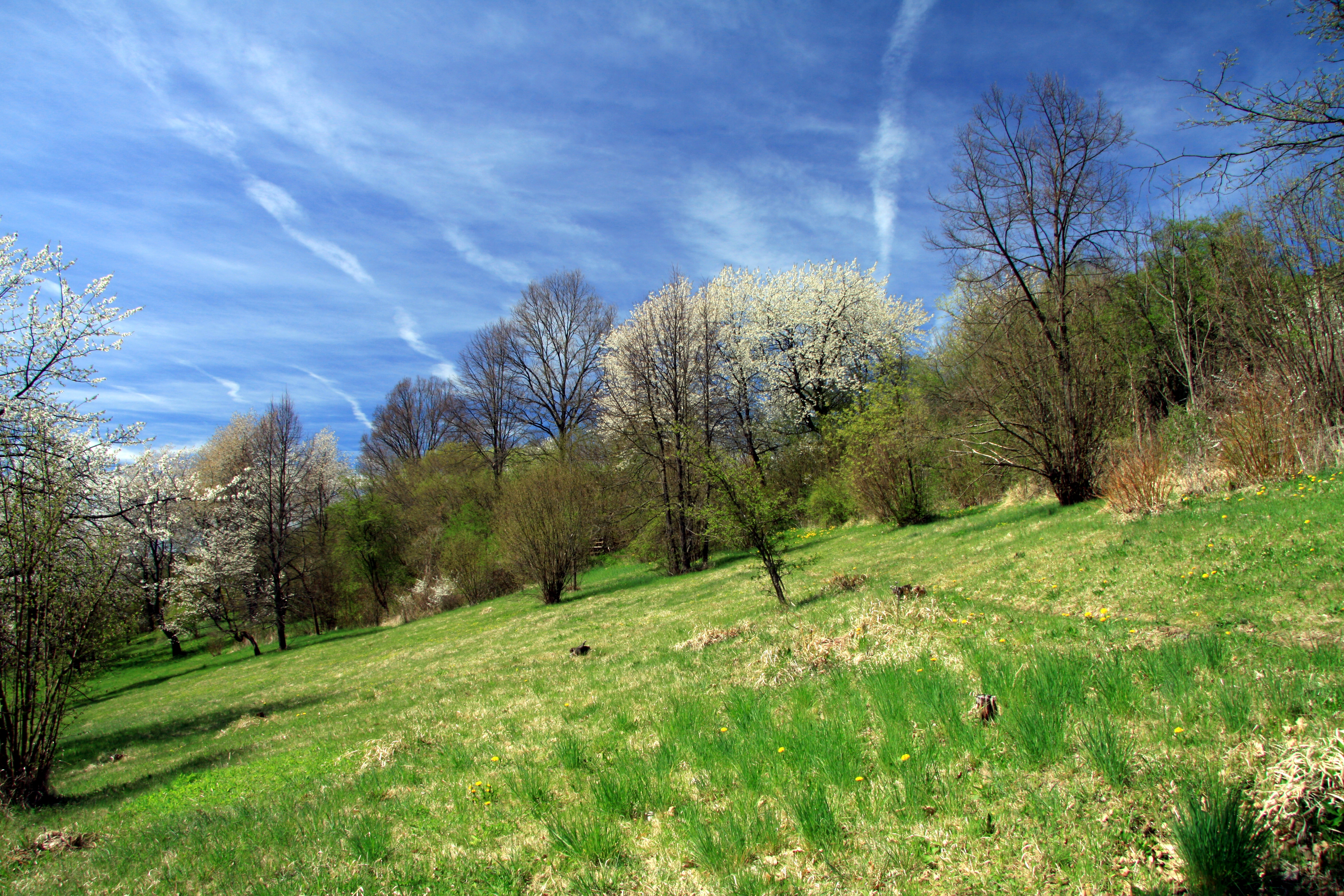 Natural monument Kalamandra near Staré Dobrkovice village in Český Krumlov District, Czech Republic Project: Chráněná území.